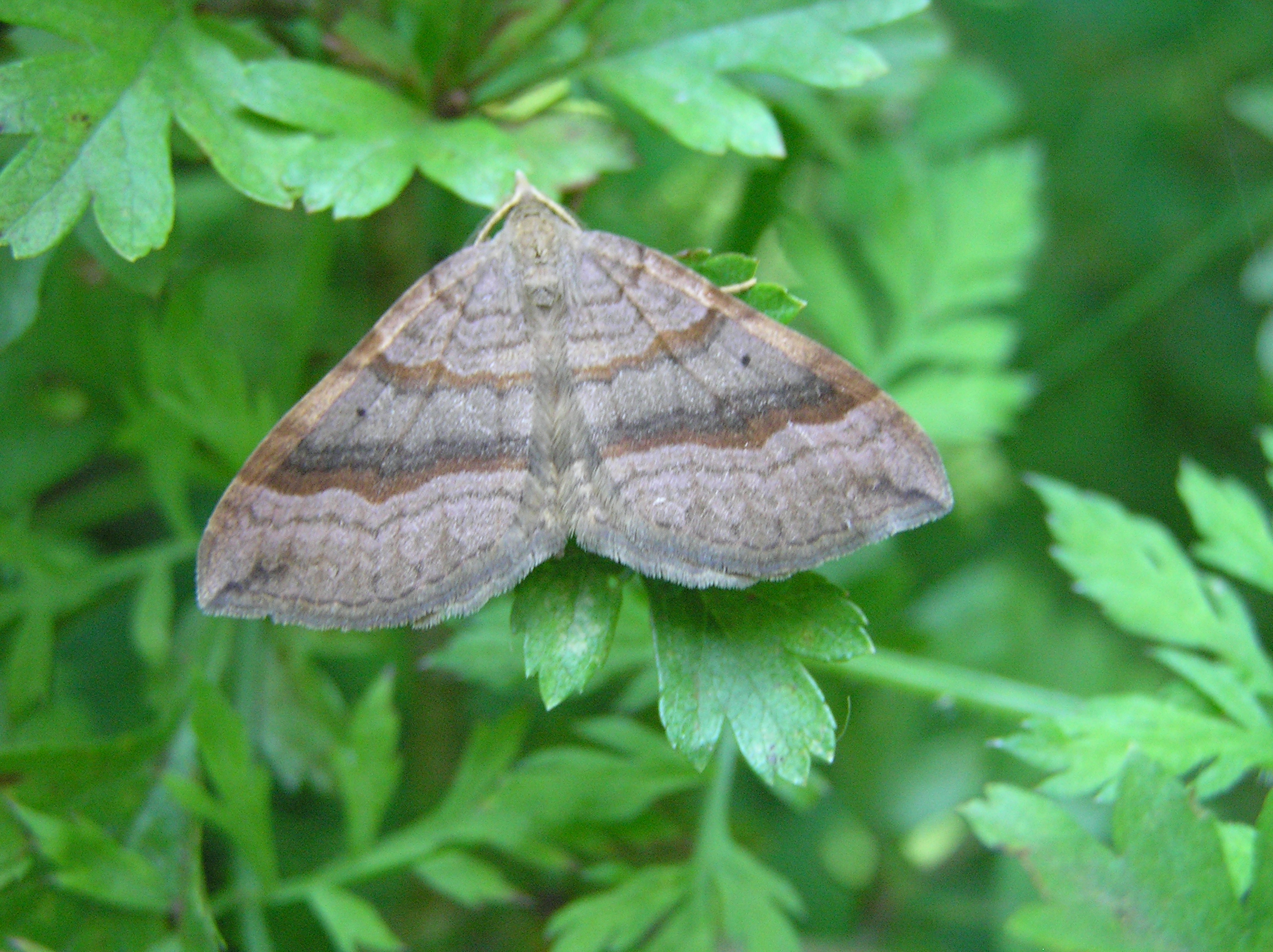 Scotopteryx chenopodiata